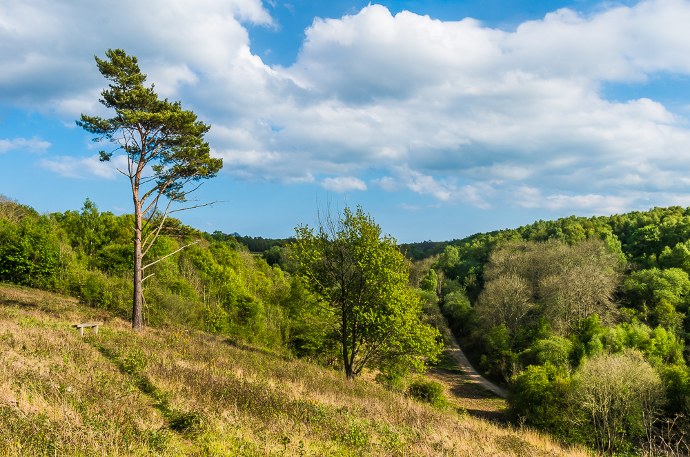 TQ1970753434 from TQ 19697 53497